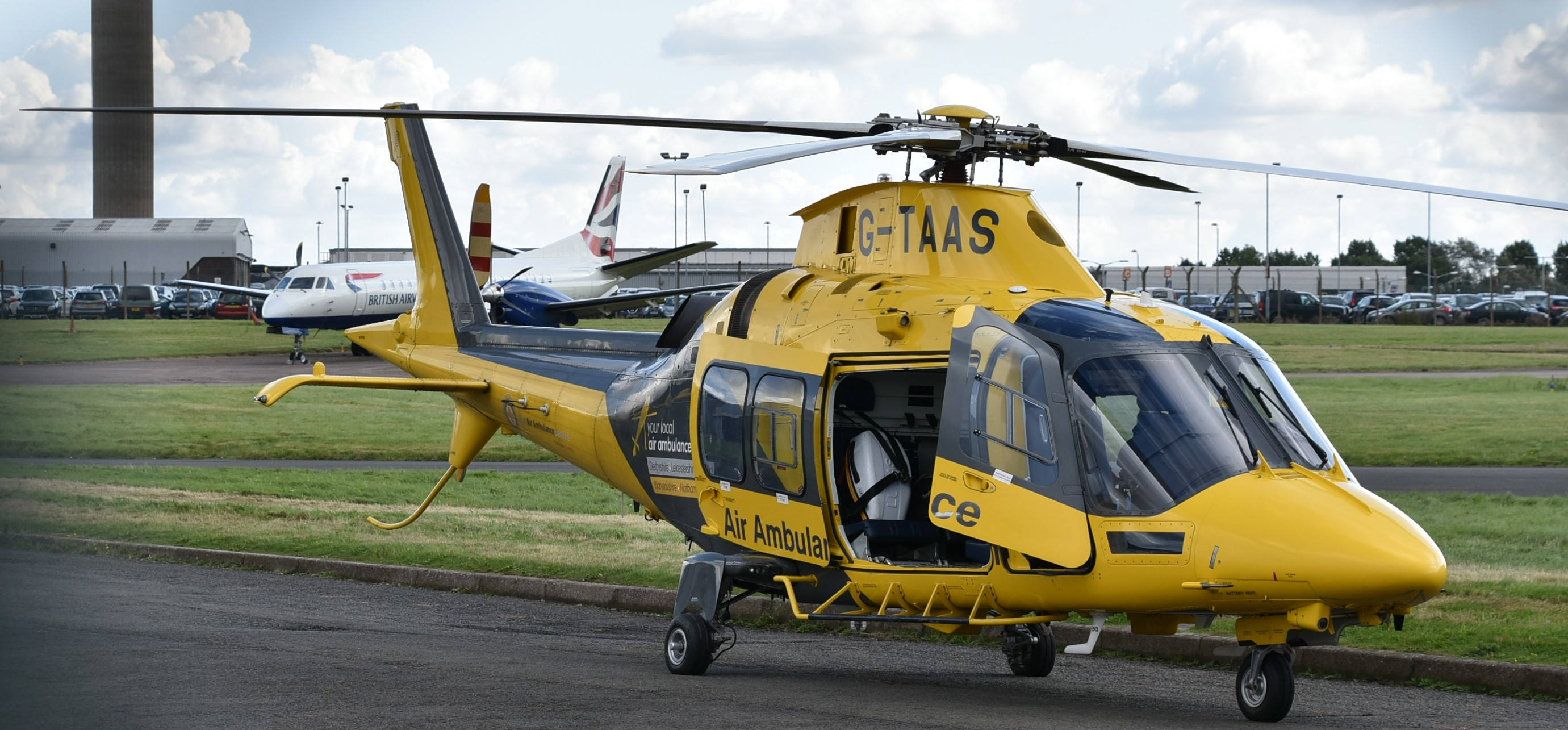 Agusta Westland AW-109SP of Sloane Helicopters at East Midlands-EMA, 31/08/17.